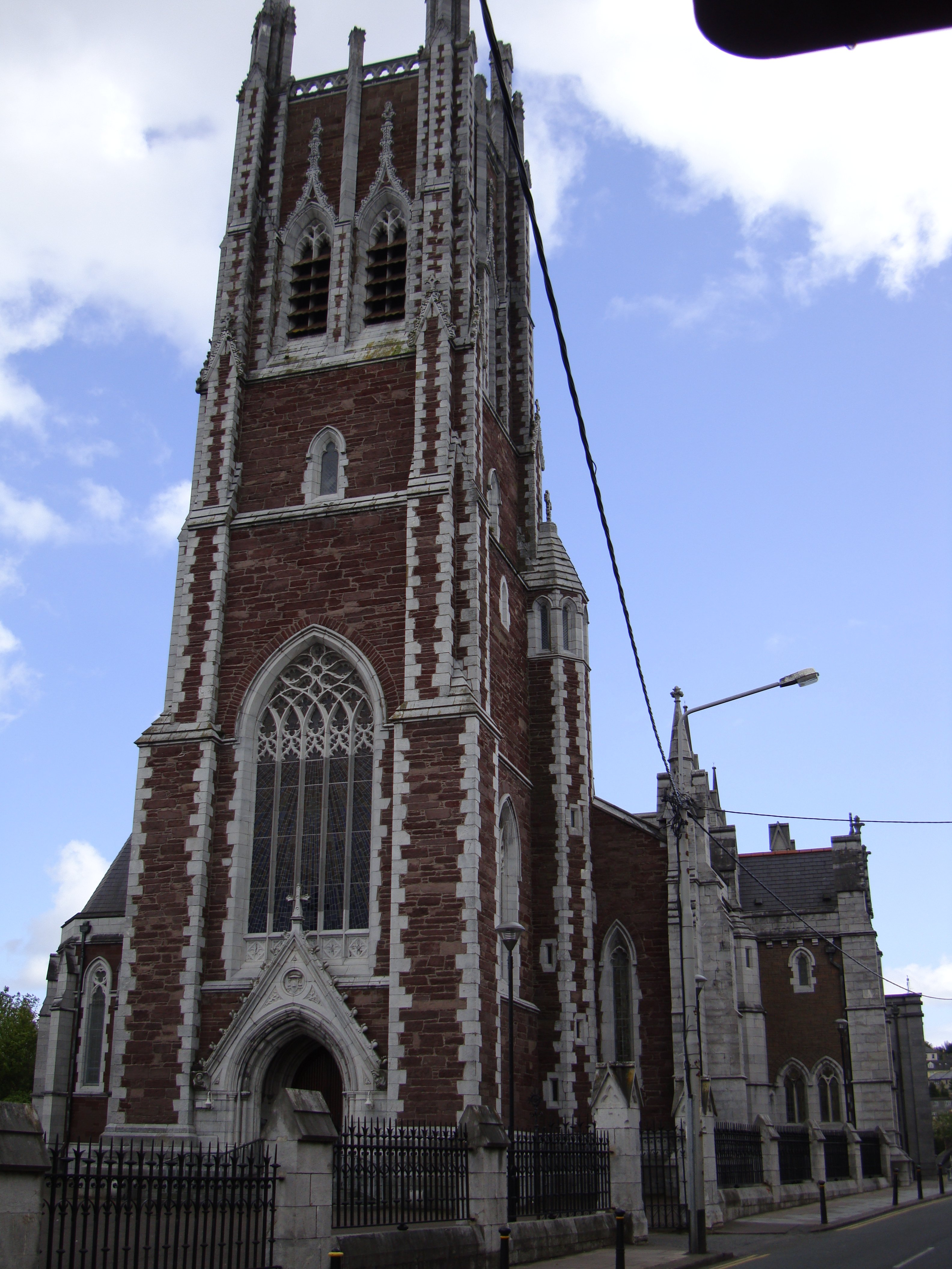 Photograph of The Roman Catholic Cathedral of St Mary and St Anne, Cork, Republic of Ireland